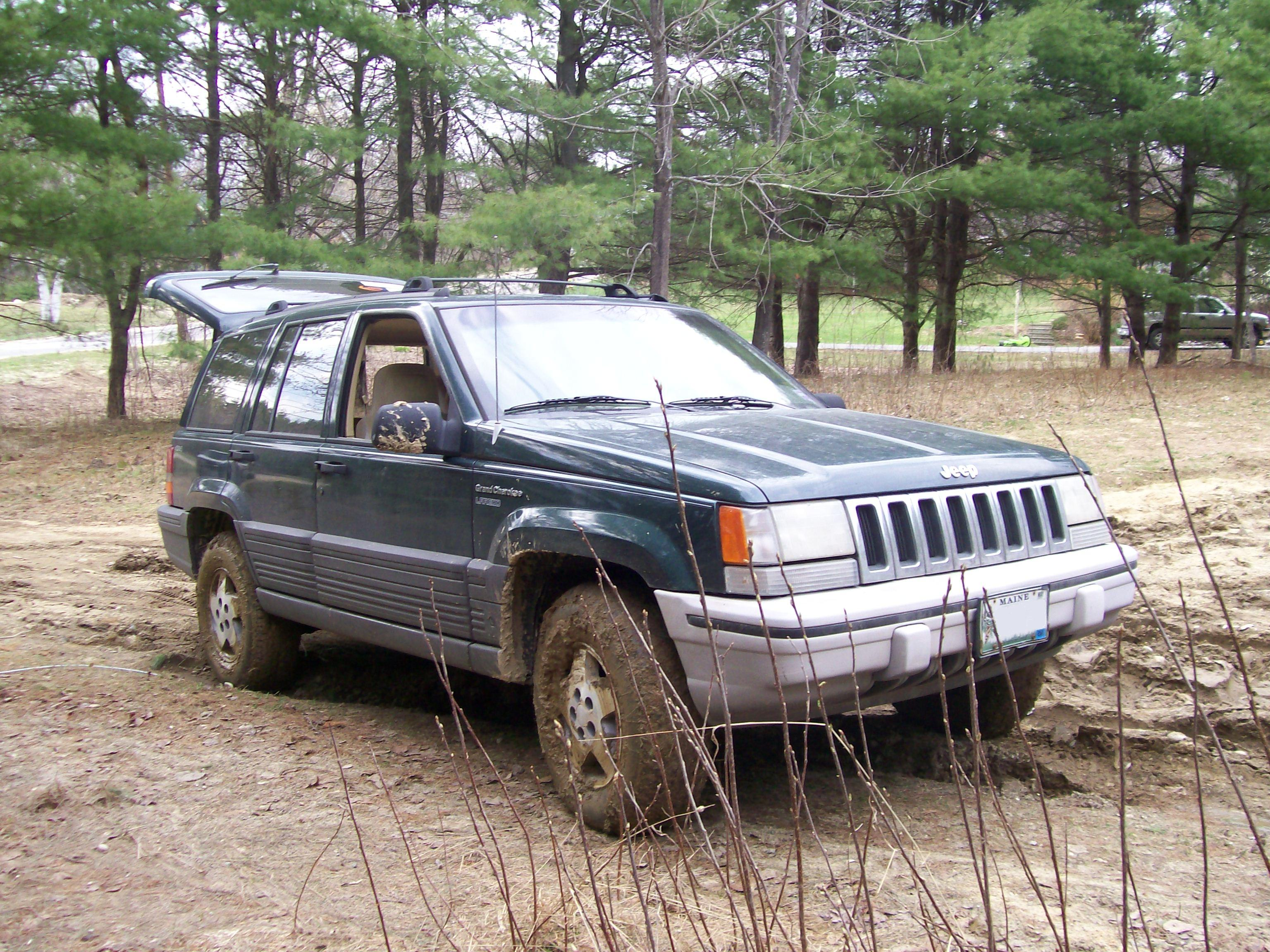 1994 Jeep ZJ (Grand Cherokee, Laredo Model).